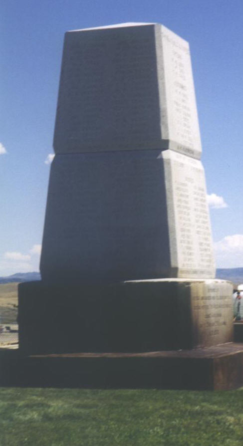 Little Big Horn battlefield, by